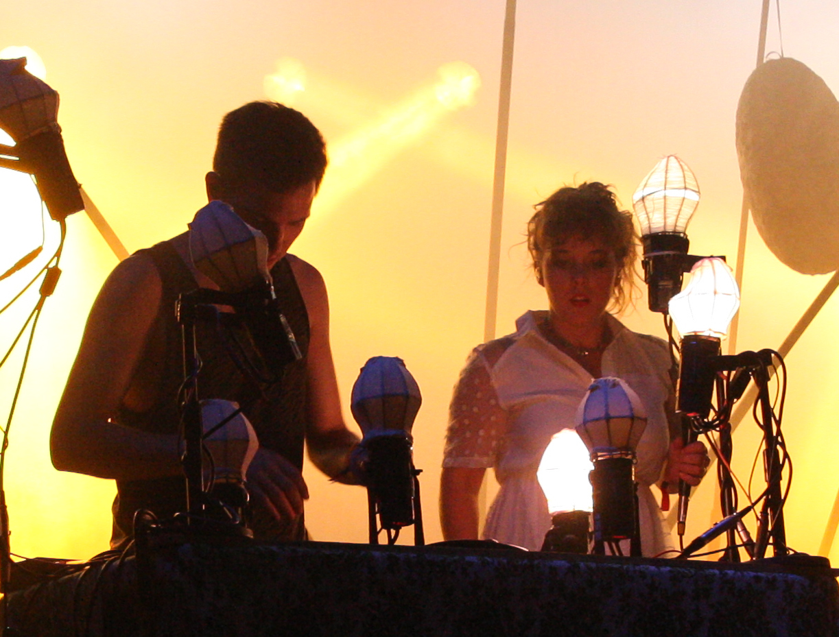 Purity Ring performing at Melt! Festival 2013